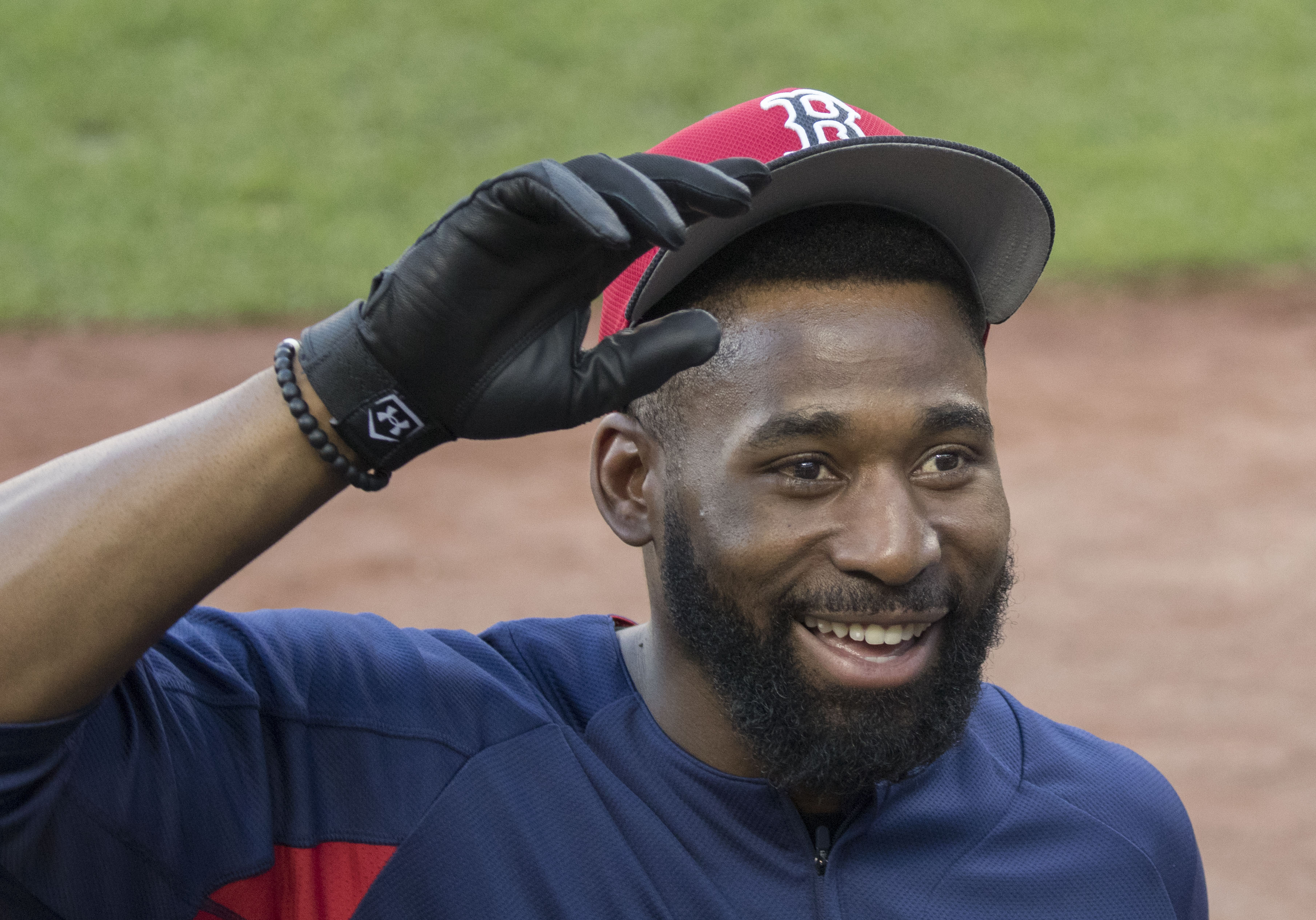 Red Sox at Orioles 9/20/17